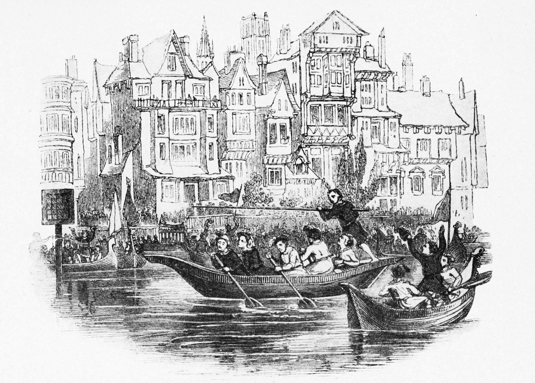 The Water Quintain (From an old print.); /243. The Elizabethan People